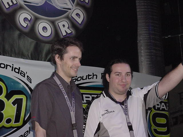 Christophe Chantzis and Erik Vanspauwen, songwriter and producer of Ian Van Dahl, at a party at Cristal Nightclub during Winter Music Conference 2002, Miami Beach, FL, USA